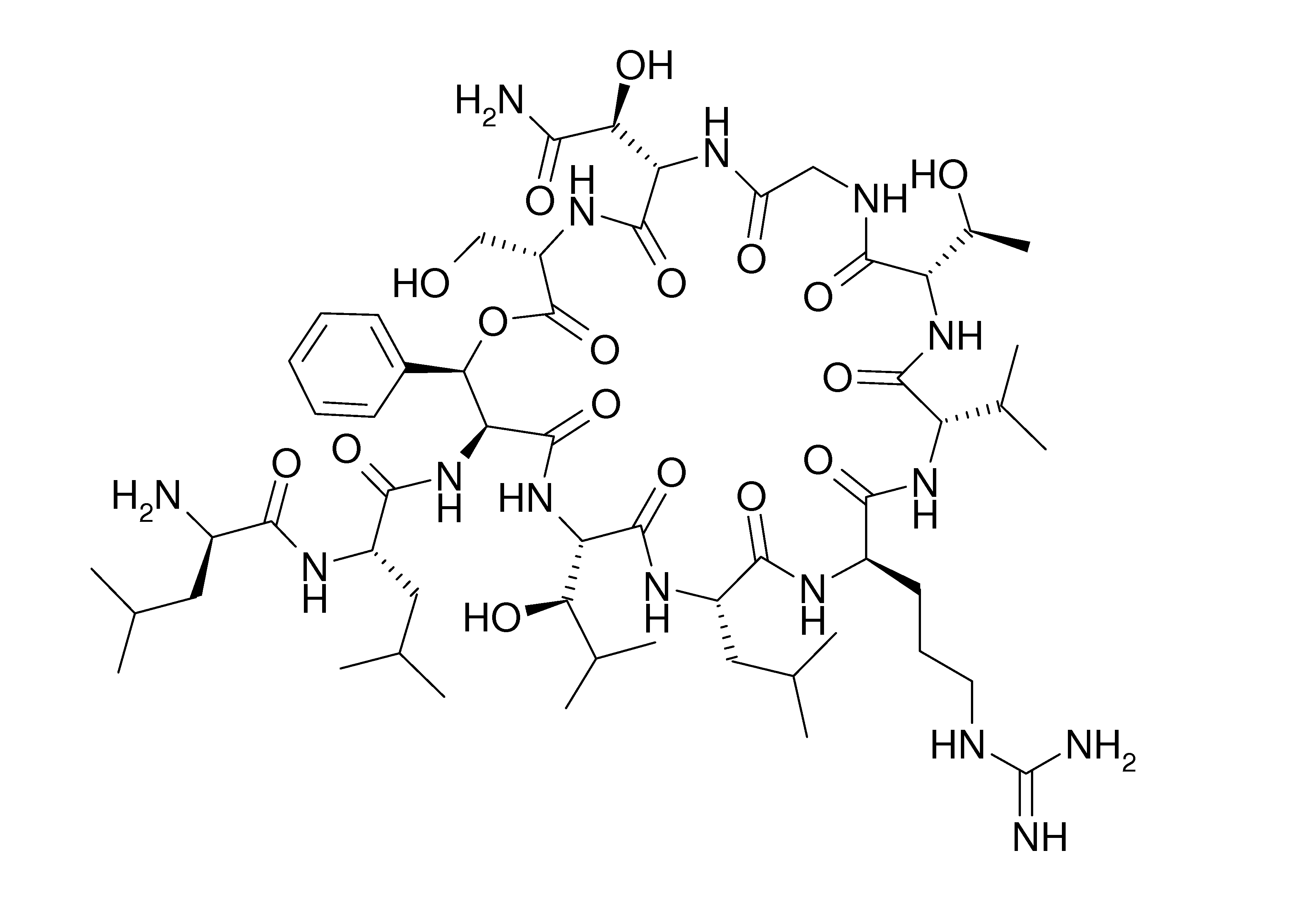 structure of katanosin A